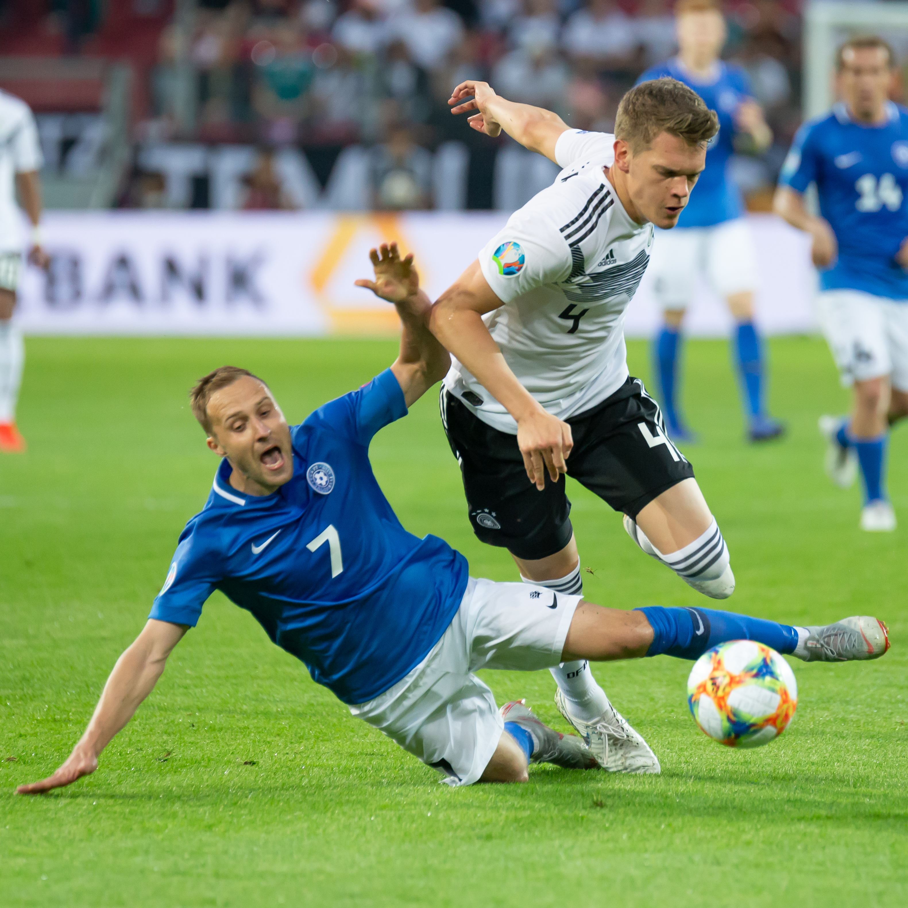 UEFA Euro 2020 qualifier Germany-Estonia